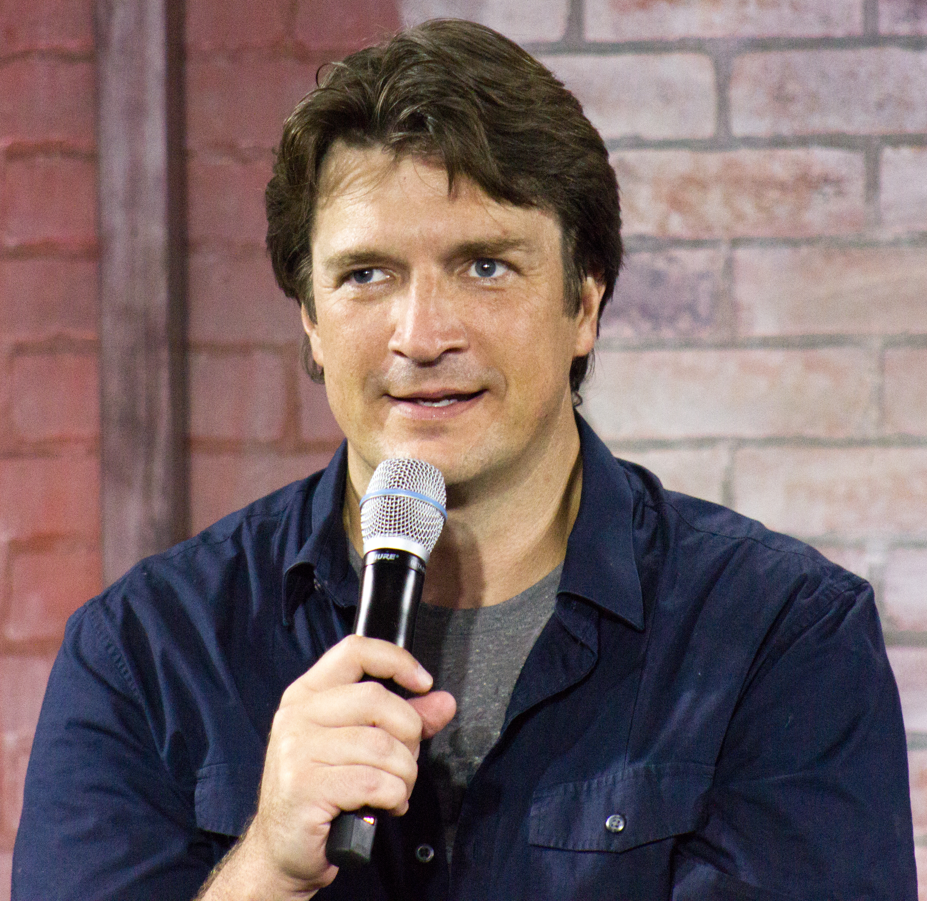 Nathan Fillion @ Nerd HQ